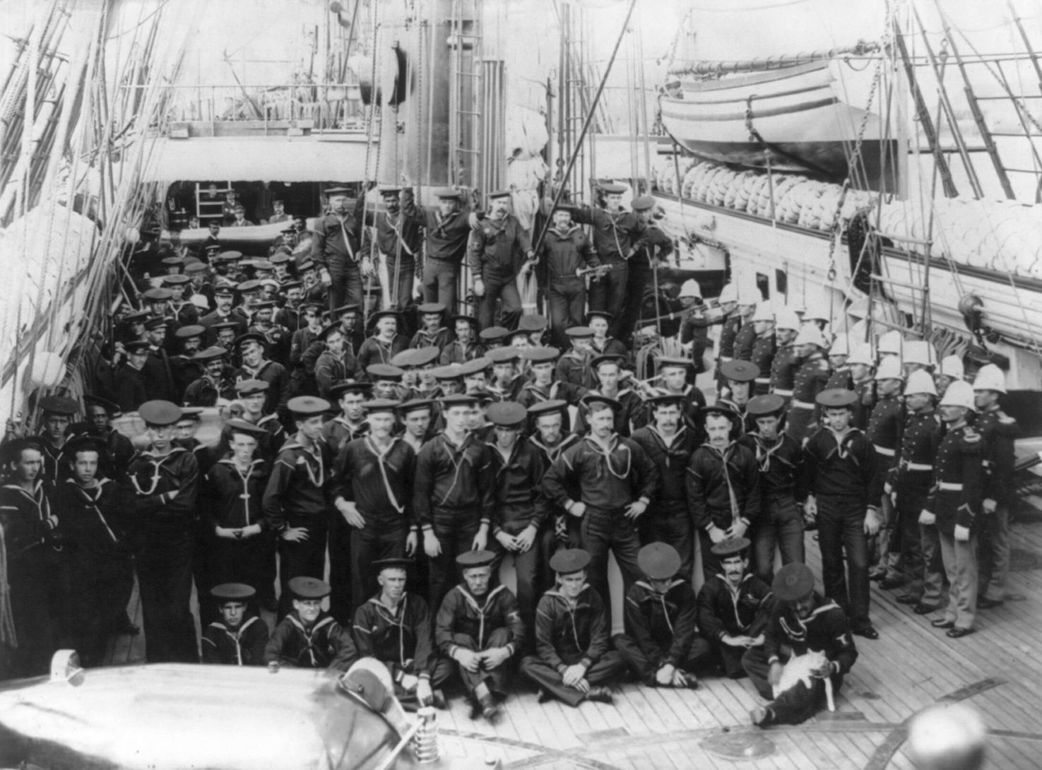 LC-USZ62-85390: U.S. Navy steam sloop of war, USS Kearsarge, with crew, and ship’s mascot, on deck. Photographed by Detroit Publishing, New York. (6/5/2015).